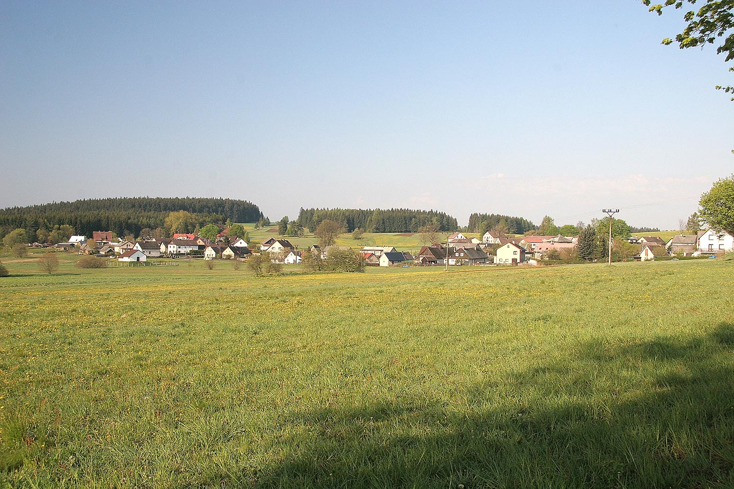 Jeníkov, Chrudim District, Czech Republic. A view from local cemetery.